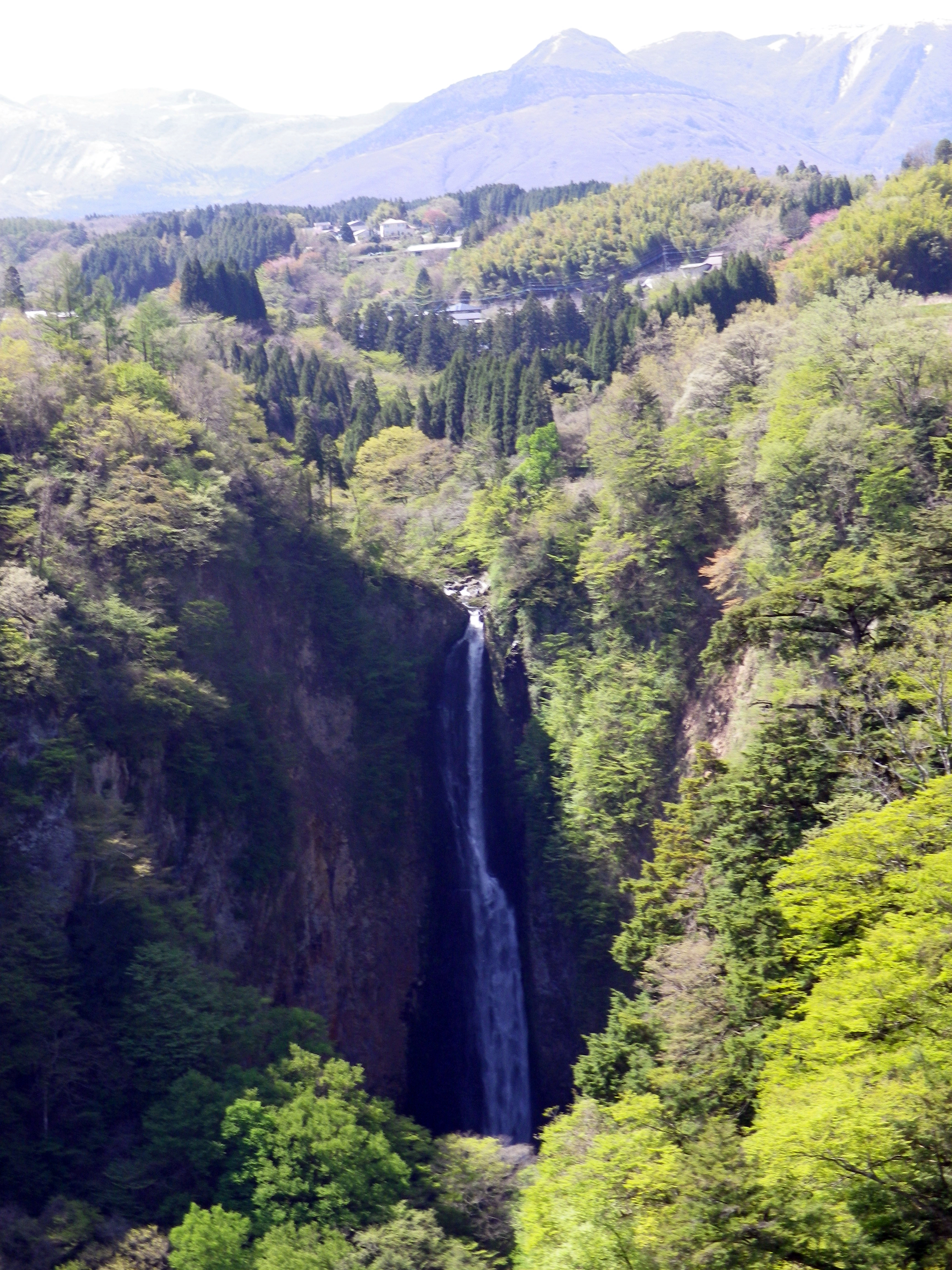 Shindō waterfalls (Odaki) and Kujū Mountains